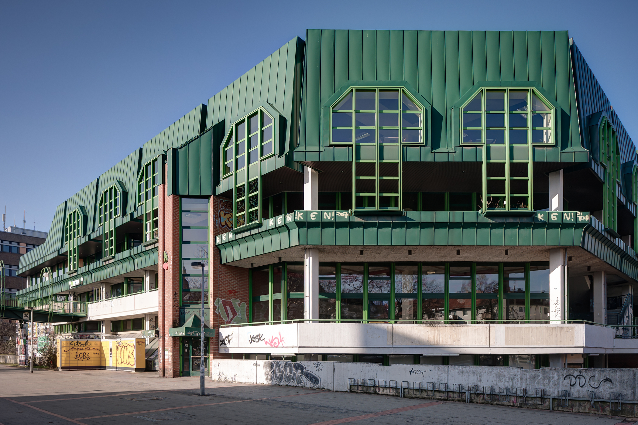 Main canteen of the university of Hanover, Germany. The building is located in the quarter Nordstadt and was completed in 1981.